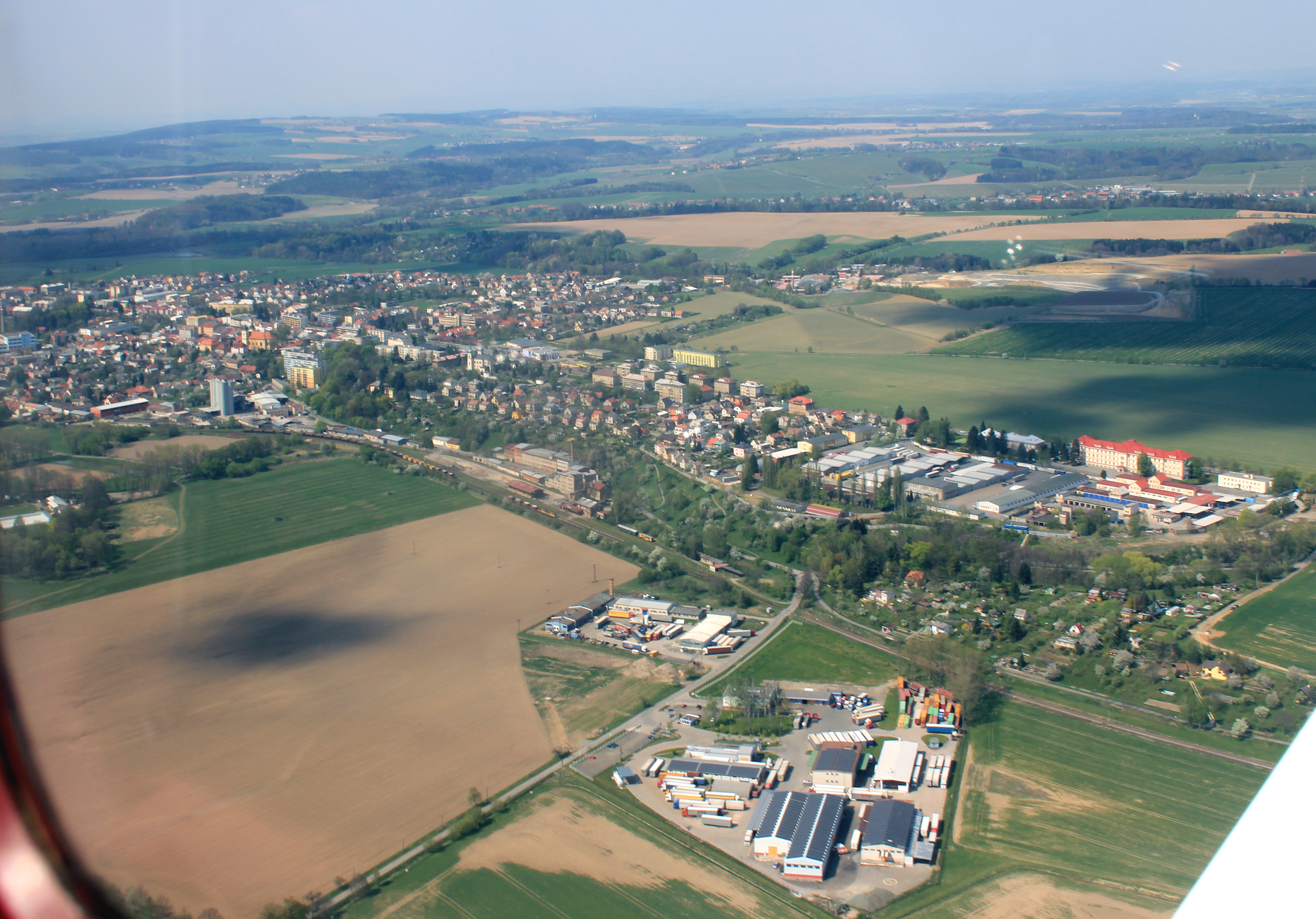 Small town Kostelec nad Orlicí from air, eastern Bohemia, Czech Republic